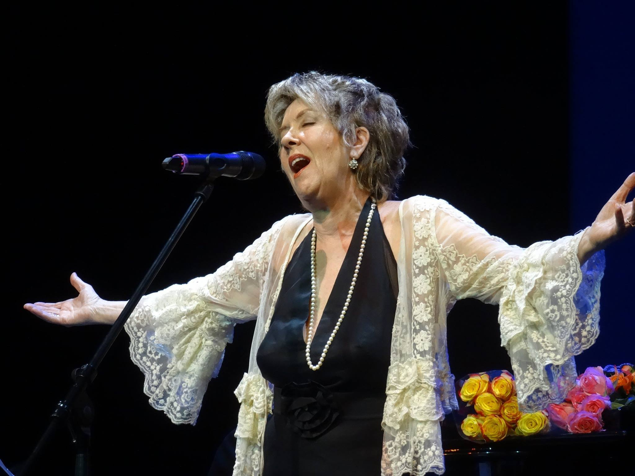 Yovanna at the Moscow International Performing Arts Center (Дом музыки) on September 12, 2015